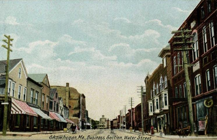 Business section of Water Street, Skowhegan, Maine